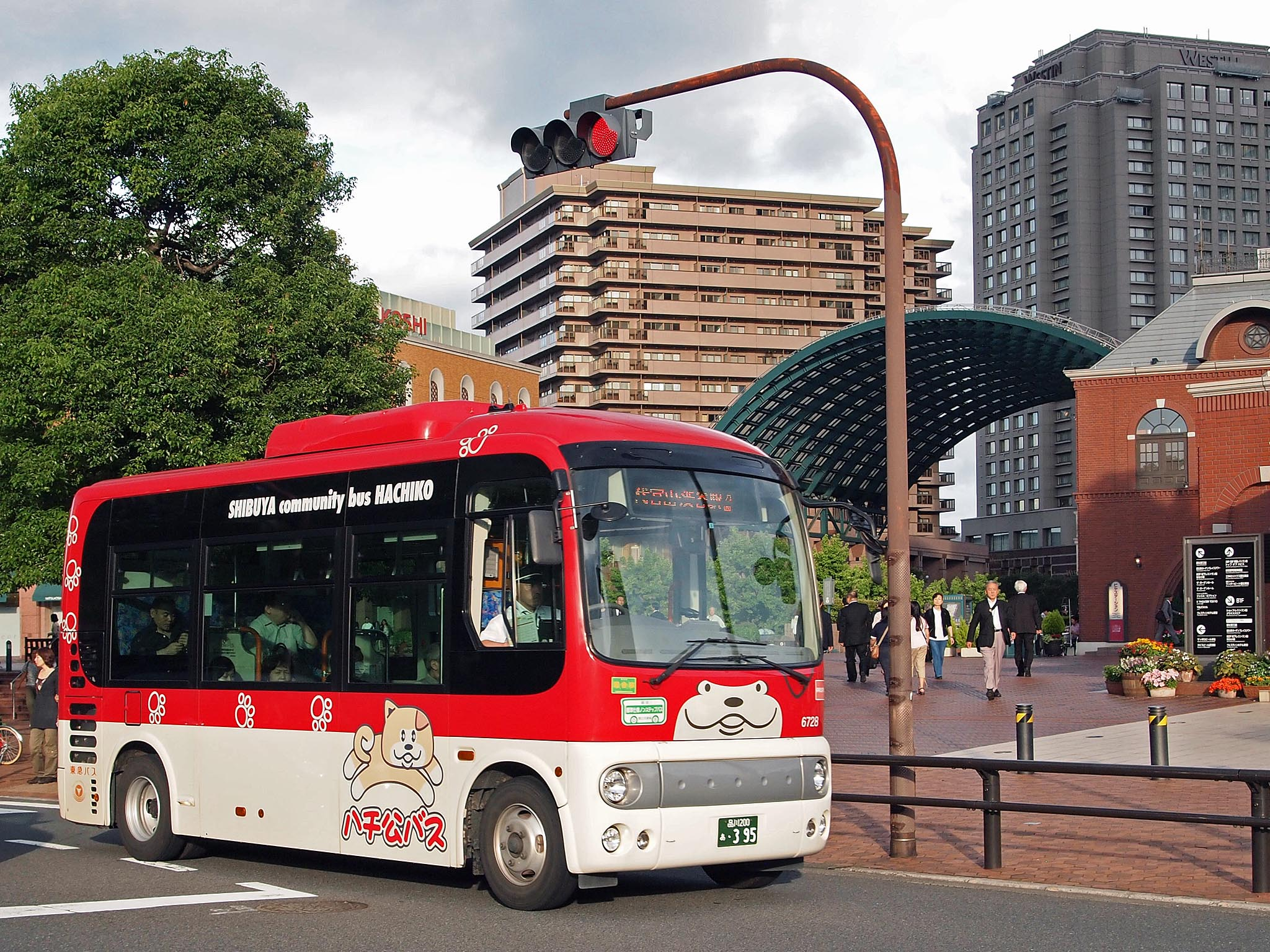 Hachiko Bus "Yu-yake Koyake"route, operated by Tokyu Bus, through at Yebisu Garden Place. Model: Hino Poncho BDG-HX6JHAE License plate: TKS200 A-395